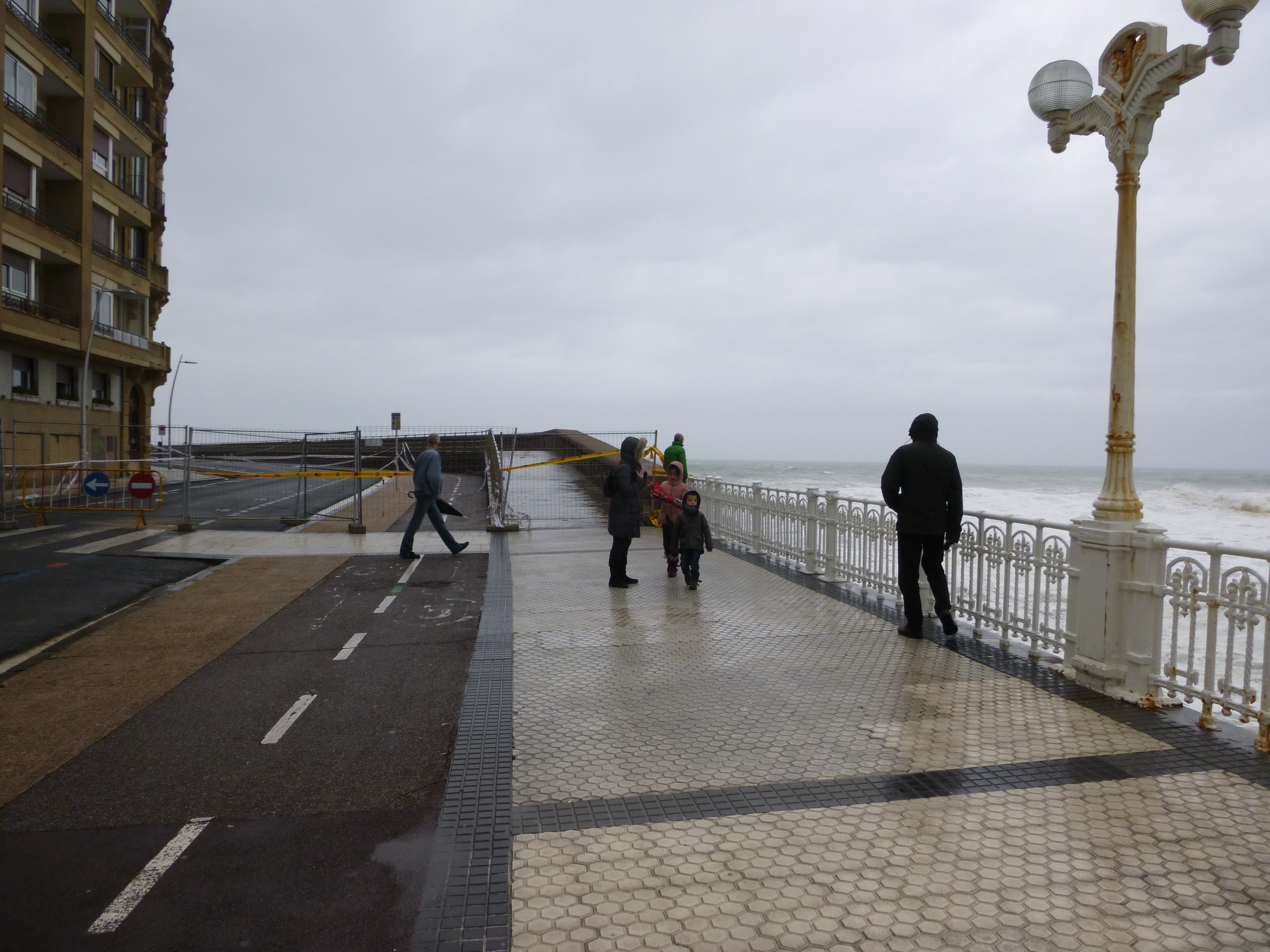 Ruzica storm in Donostia